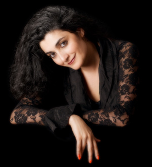 Darya Dadvar, Iranian soprano and musician